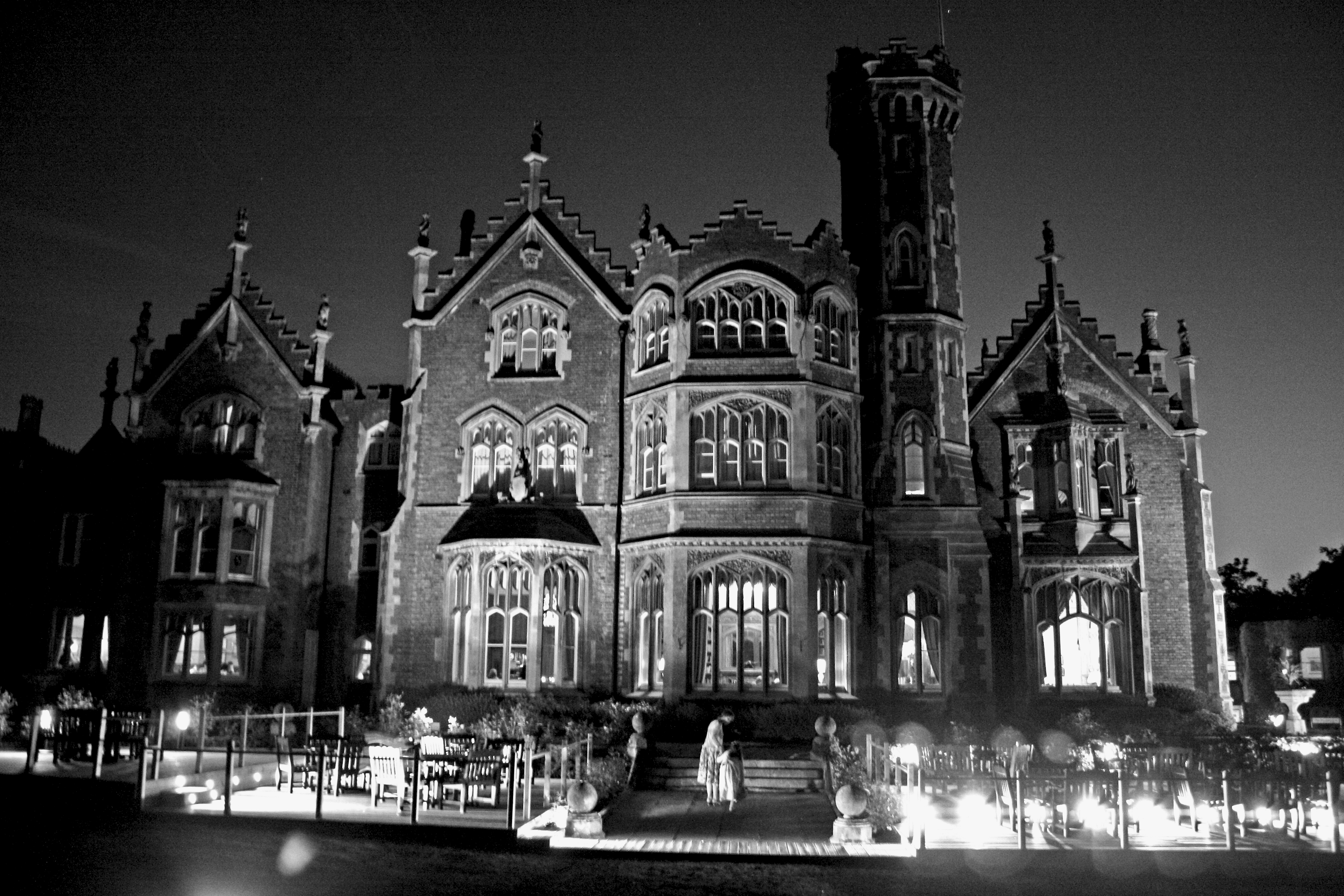 Oakely Court